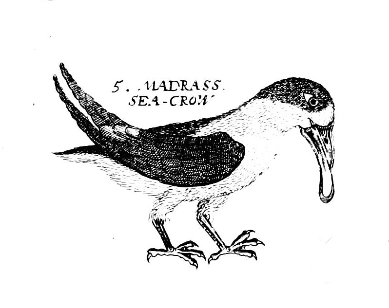 Madrass Sea Crow by John Ray - illustration of Rhynchops albicollis